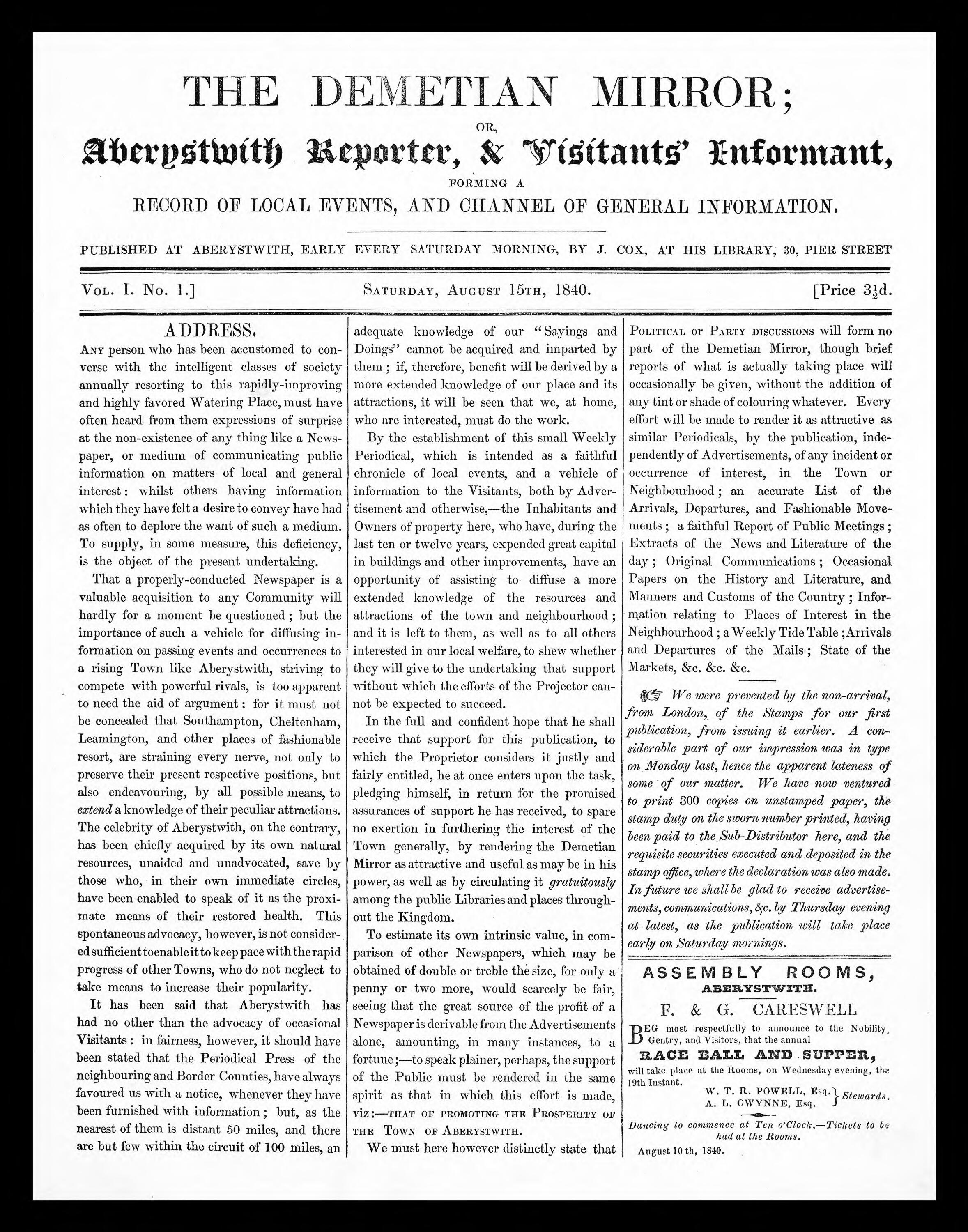 Front page of the earliest surviving copy of the Welsh newspaper The Demetian Mirror